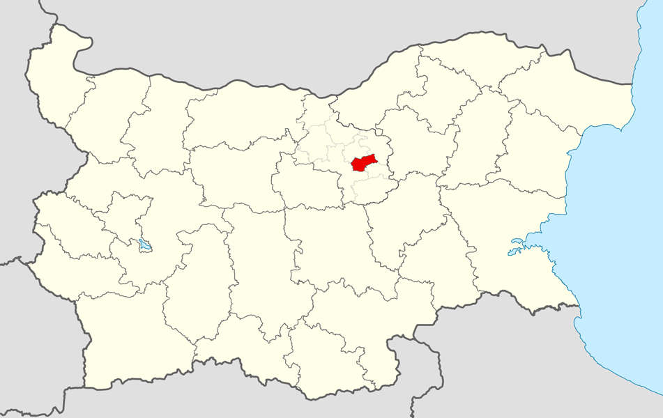 Location map of Lyaskovets Municipality within Bulgaria and Veliko Tarnovo Province. Equirectangular projection, N/S stretching 130 %. Geographic limits of the map: N: 44.4° N S: 41.1° N W: 22.1° E E: 28.9° E